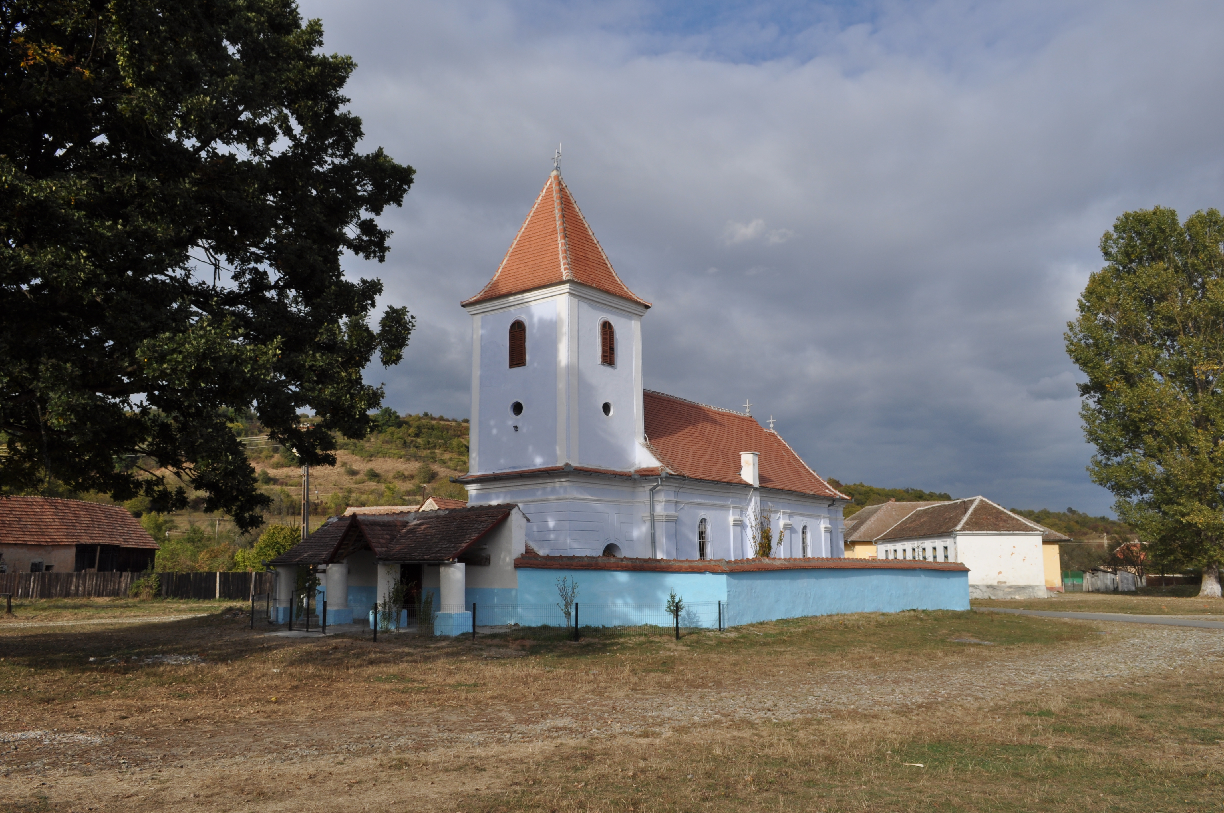 ”The Saint Pious Parascheva” church of Țichindeal, Sibiu county